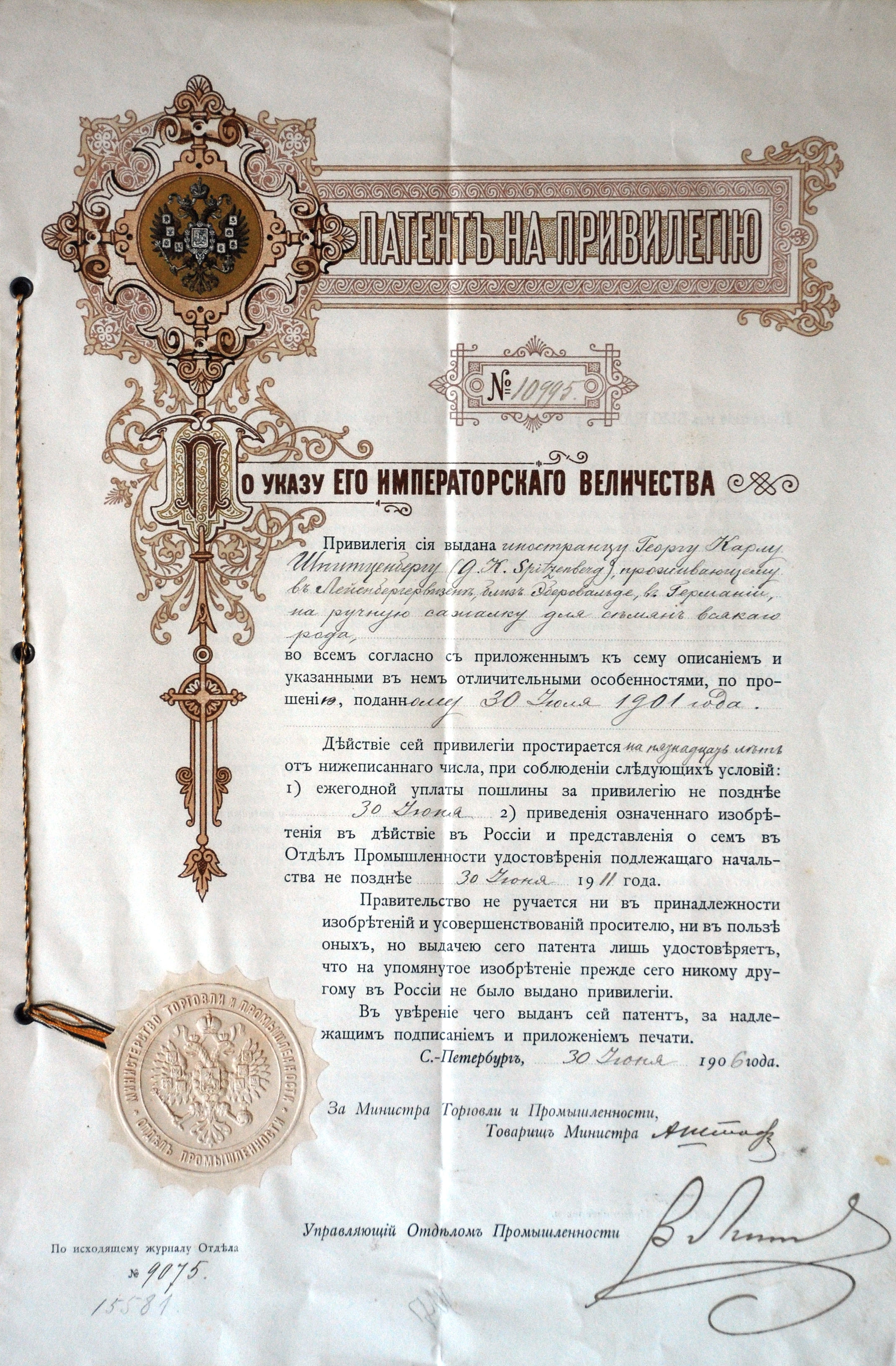 Patent certificate Karl Spitzenberg Russia 1906